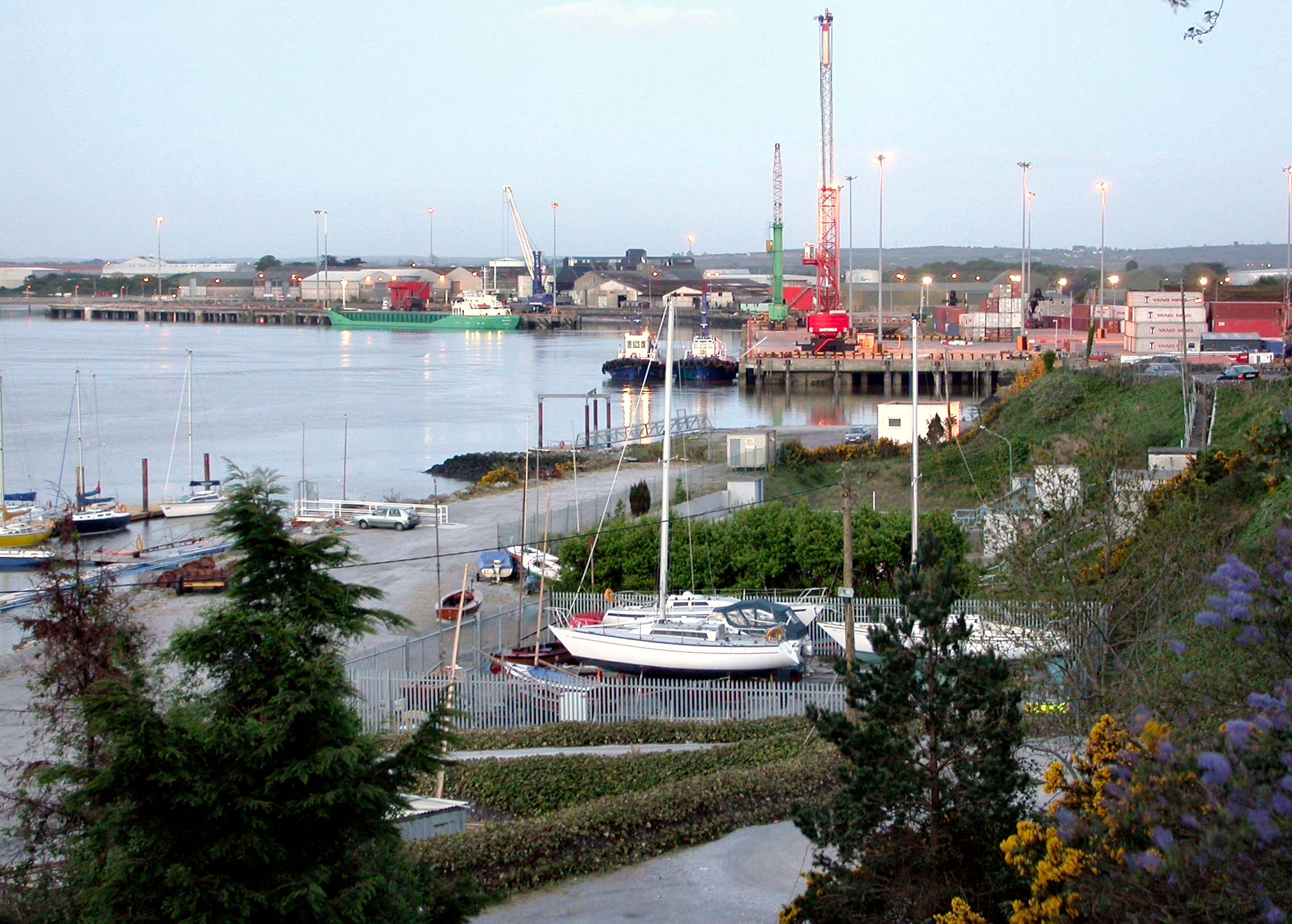 Ag feachaint soir ar chalafort Faing